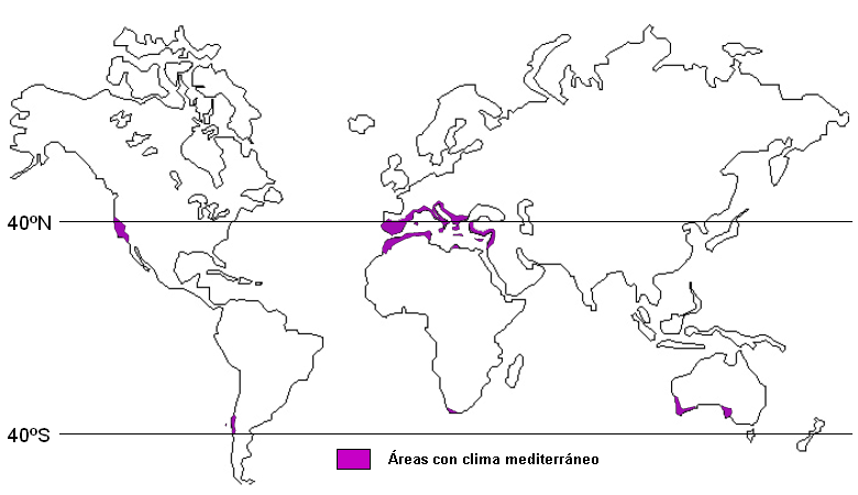 Spanish script